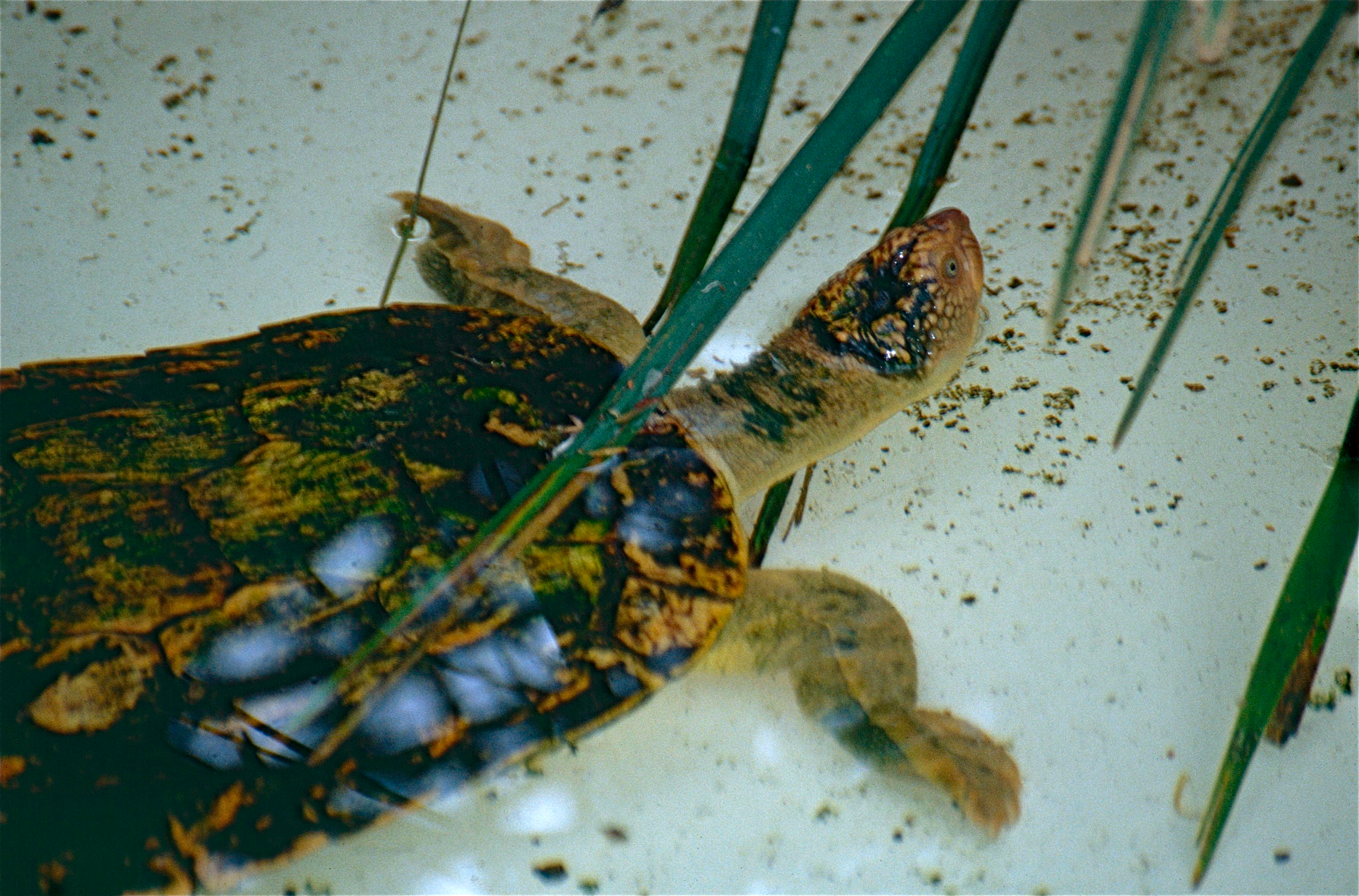 Australia Zoo, Beerwah, South Queensland, AUSTRALIA Scanned Slide from Dec 2000